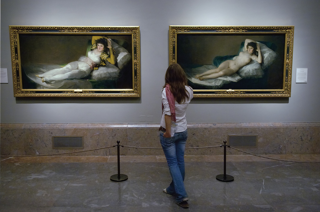 Museo del Prado This photograph can be used for publications, including this copyright statement: “©PromoMadrid, author Max Alexander”. Esta fotografía puede usarse en publicaciones, incluyendo la declaración “©PromoMadrid, autor Max Alexander”.